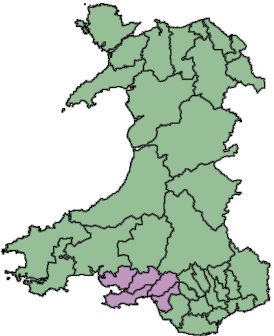 West Glamorgan Area of Search